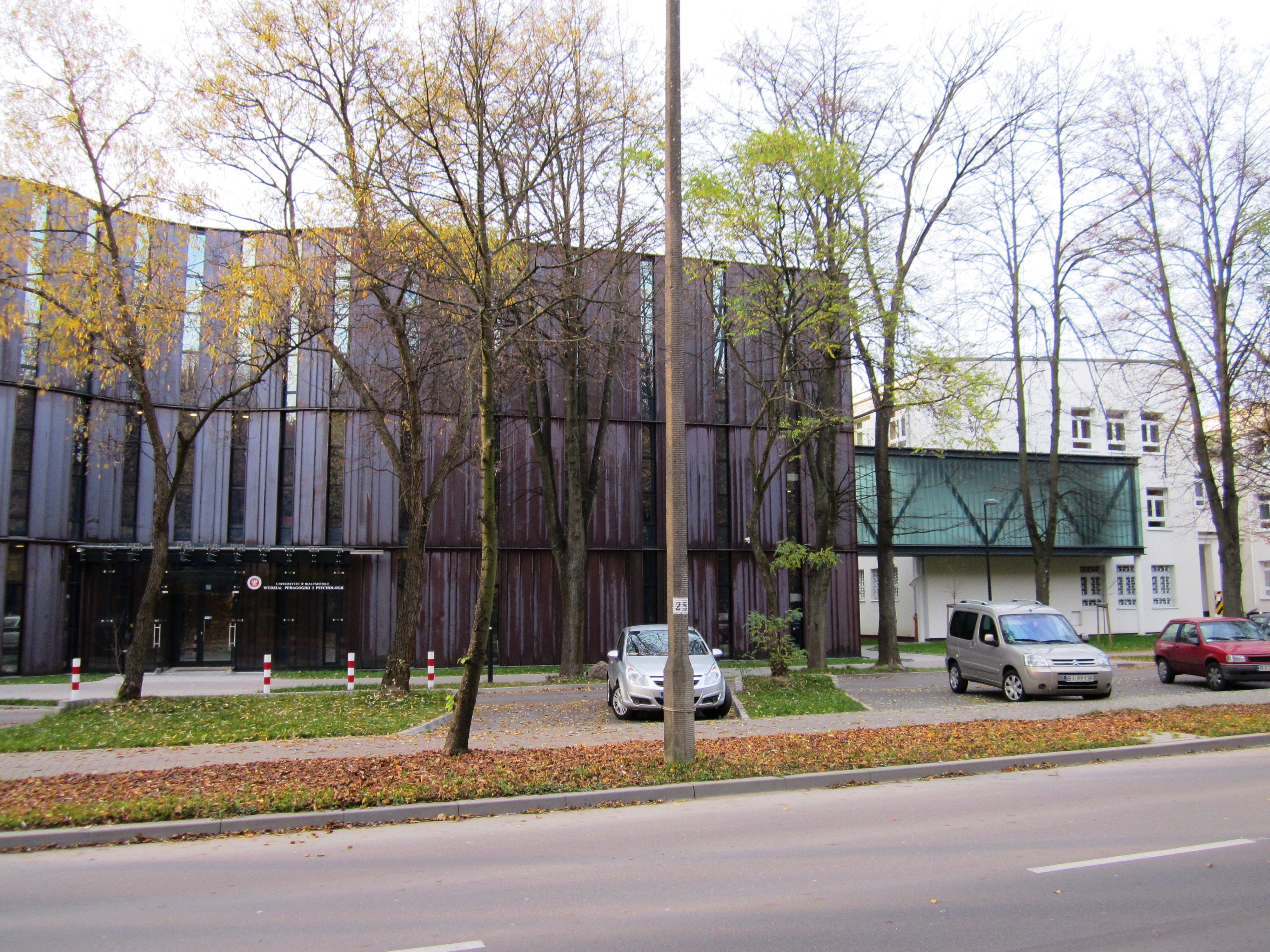 University of Białystok, 20 Świerkowa street. Faculty of Pedagogy and Psychology